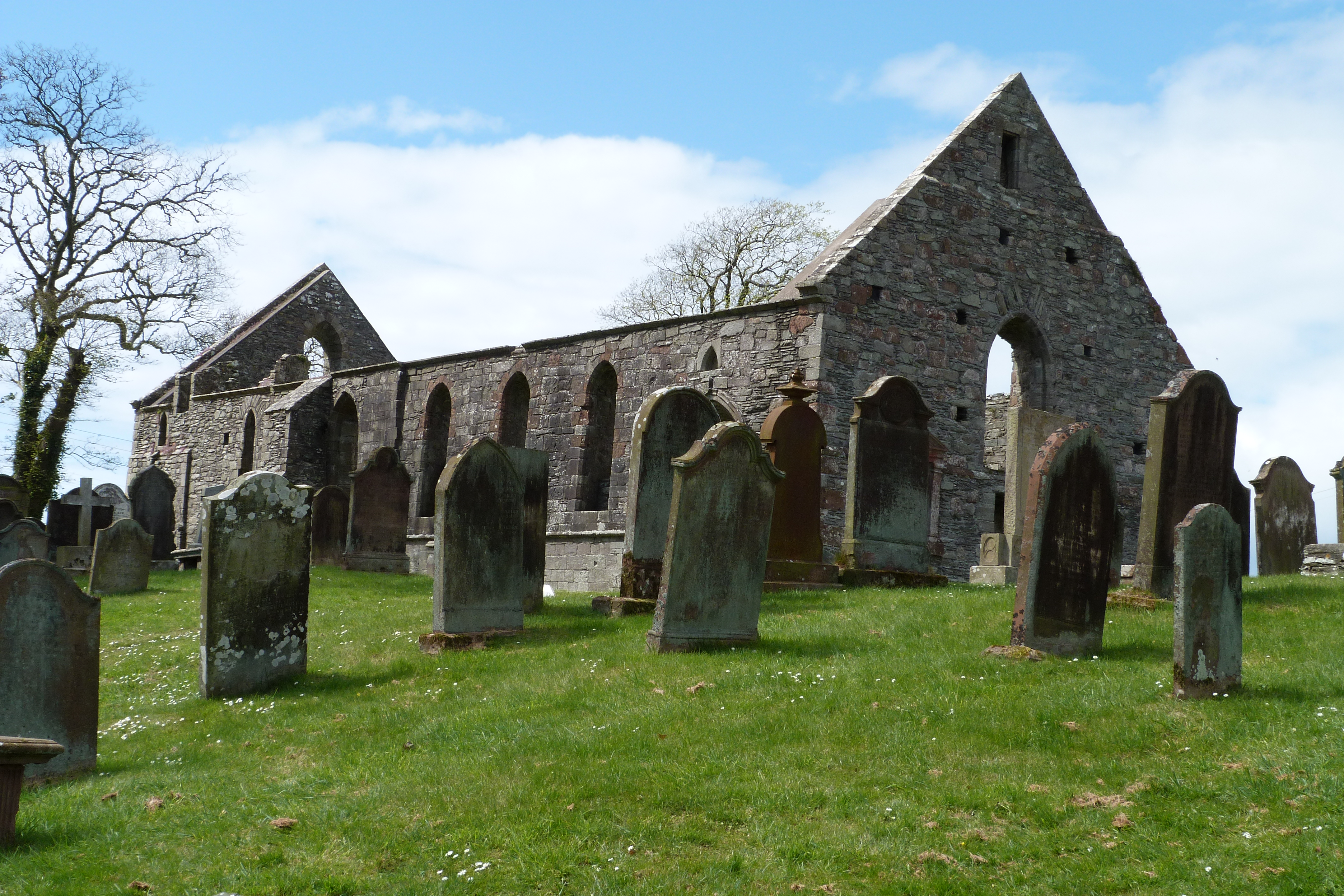 Whithorn, Galloway, Scotland